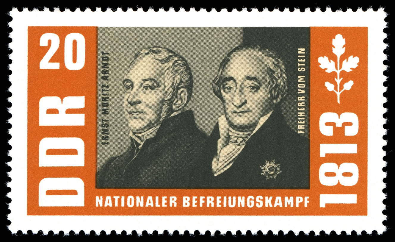 Ausgabepreis: Pfennig First Day of Issue / Erstausgabetag: Auflage: Entwurf: Druckverfahren: Michel-Katalog-Nr: Ländercode-MiNr: Licensing This file is most likely NOT in the public domain. It has been marked for review, and will be deleted in due course if the review does not find it to be in the public domain. This file was previously considered to be in the public domain as a German stamp; it is possible that it is in the public domain for other reasons, in which case a new rationale will be applied as part of the review process. See below for the previous rationale. Previous public domain rationale, no longer applicable This stamp is in the public domain in Germany because it was released by the postal administration of the German Democratic Republic or the Soviet occupation zone (Deutschen Post der DDR) whose legal successor is the Federal Republic of Germany. Thus it is an official work according to German copyright law (§ 5 Abs. 1 UrhG).